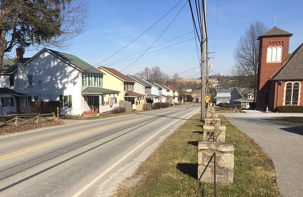 A view of the main street. Houses built for miners during the towns coal mining days are shown at left.